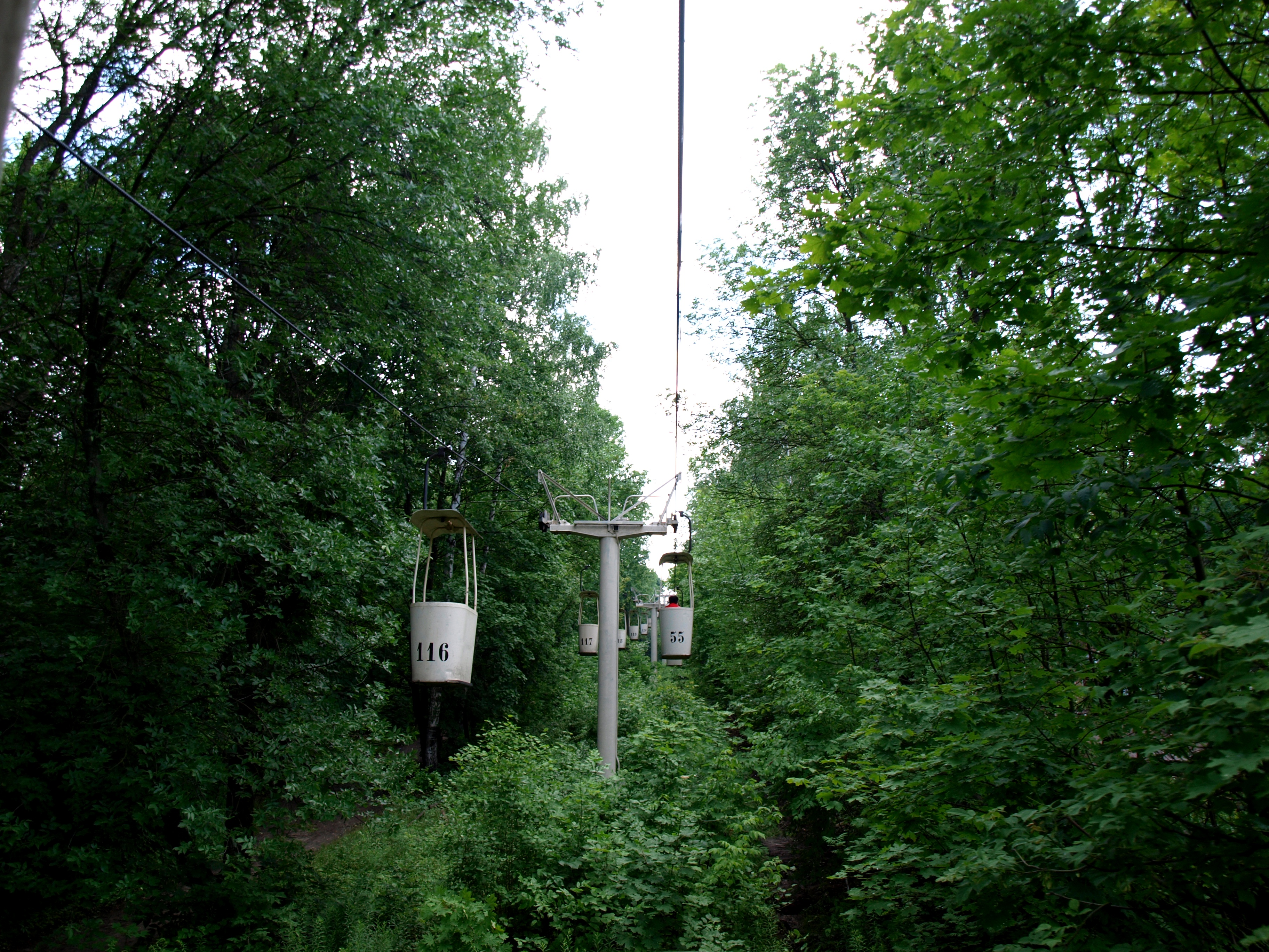 Kharkov Aerial tramway